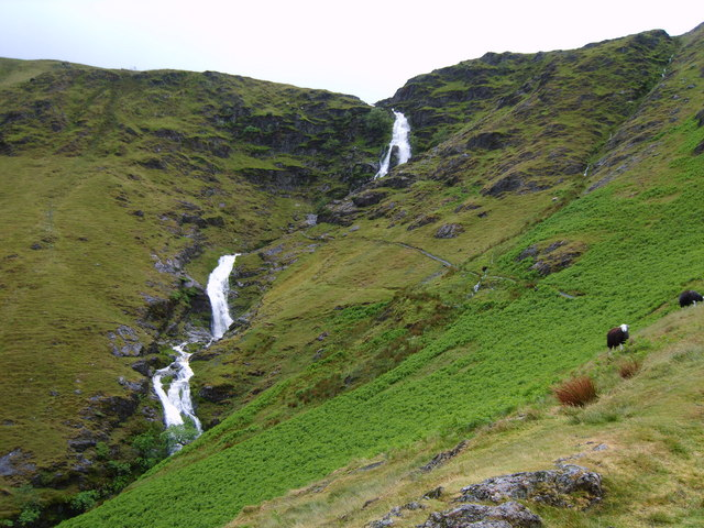 Moss Force The drought has broken with the wet and windy midsummer weather.